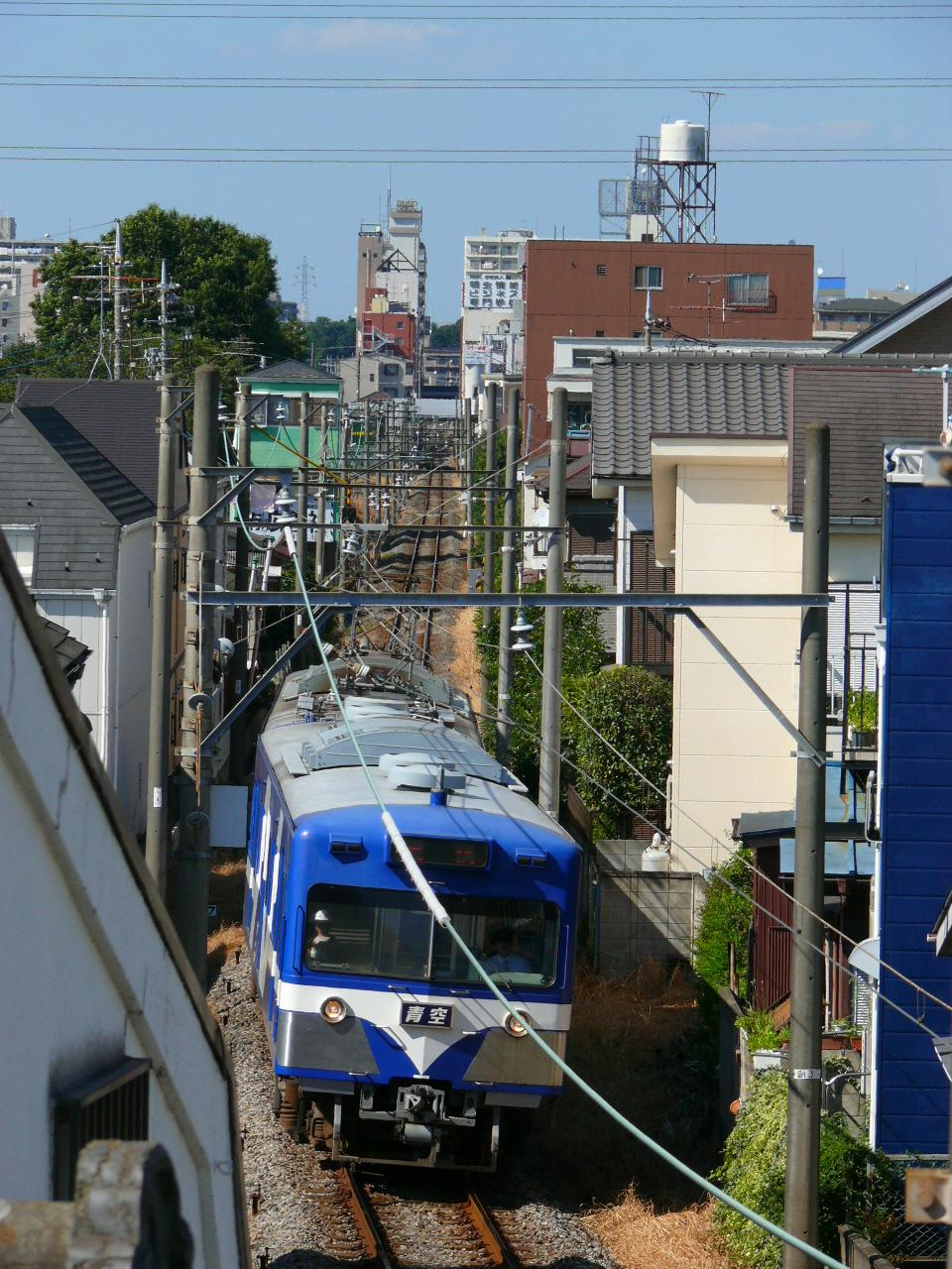 Ryutetu Railway Nagareyama line (Japan,Tiba prefecture).